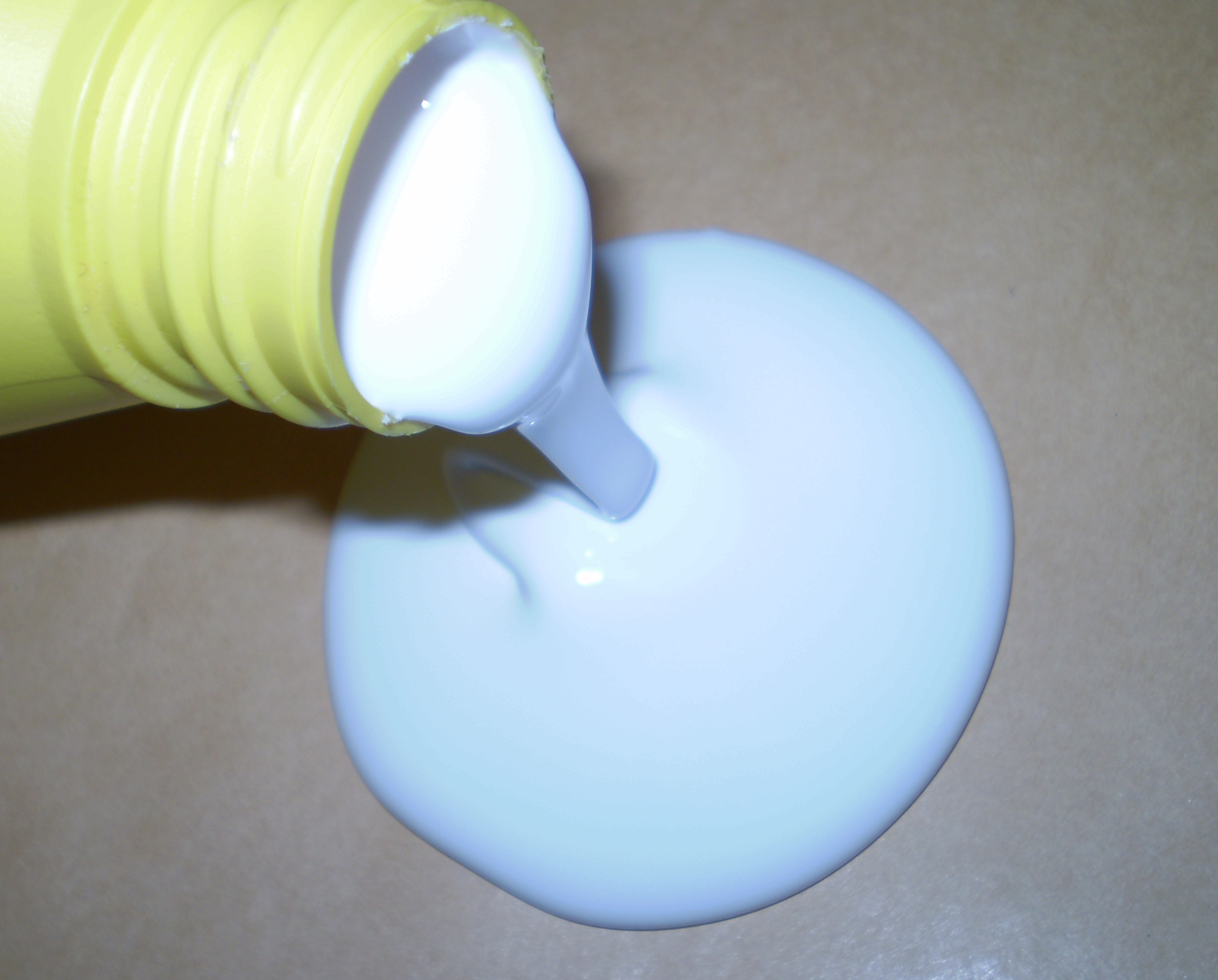 Glue